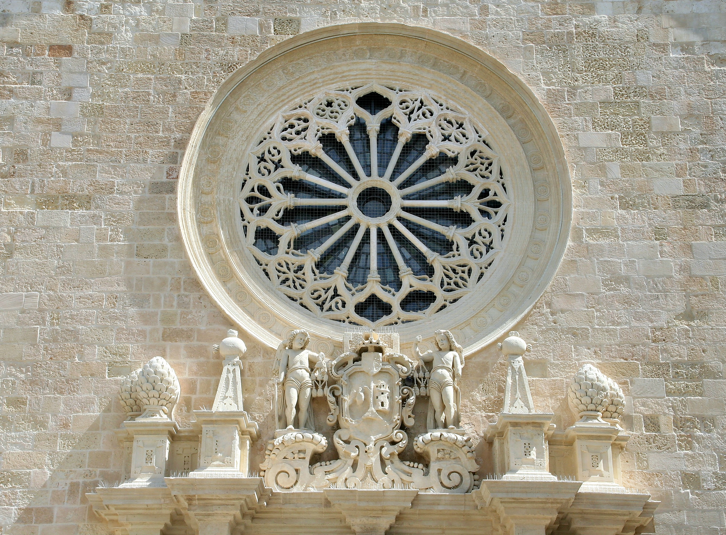 Otranto's cathedral frontside detail.